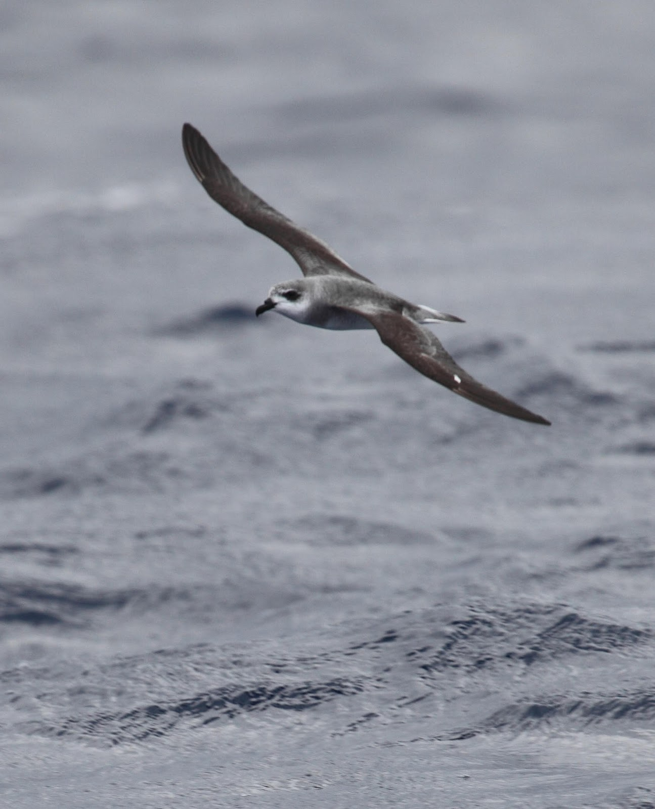 Black-winged Petrel (Pterodroma nigripennis) east of Southport, Queensland, Australia